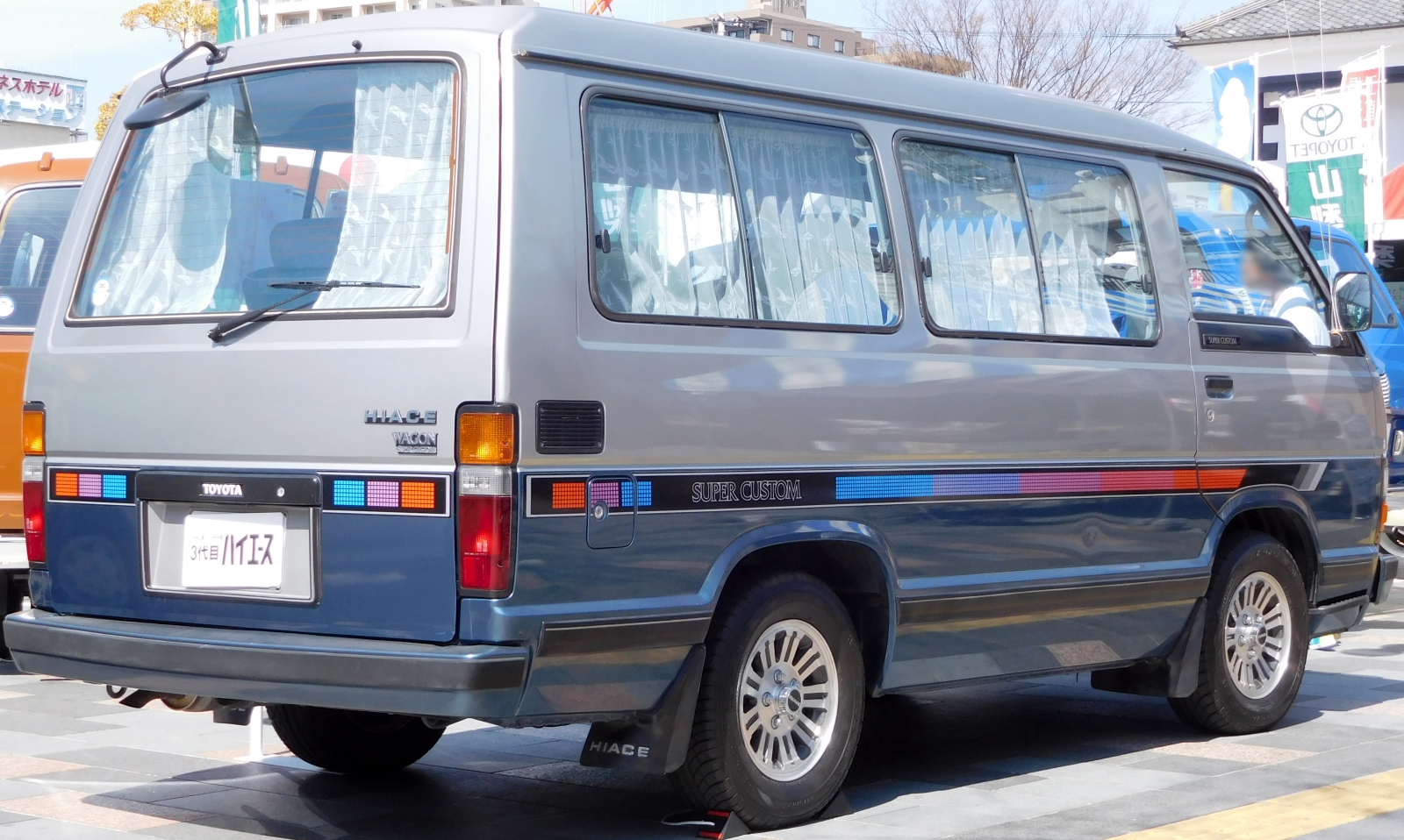 Toyota Hiace Wagon Super Custom Sun & Moon Roof